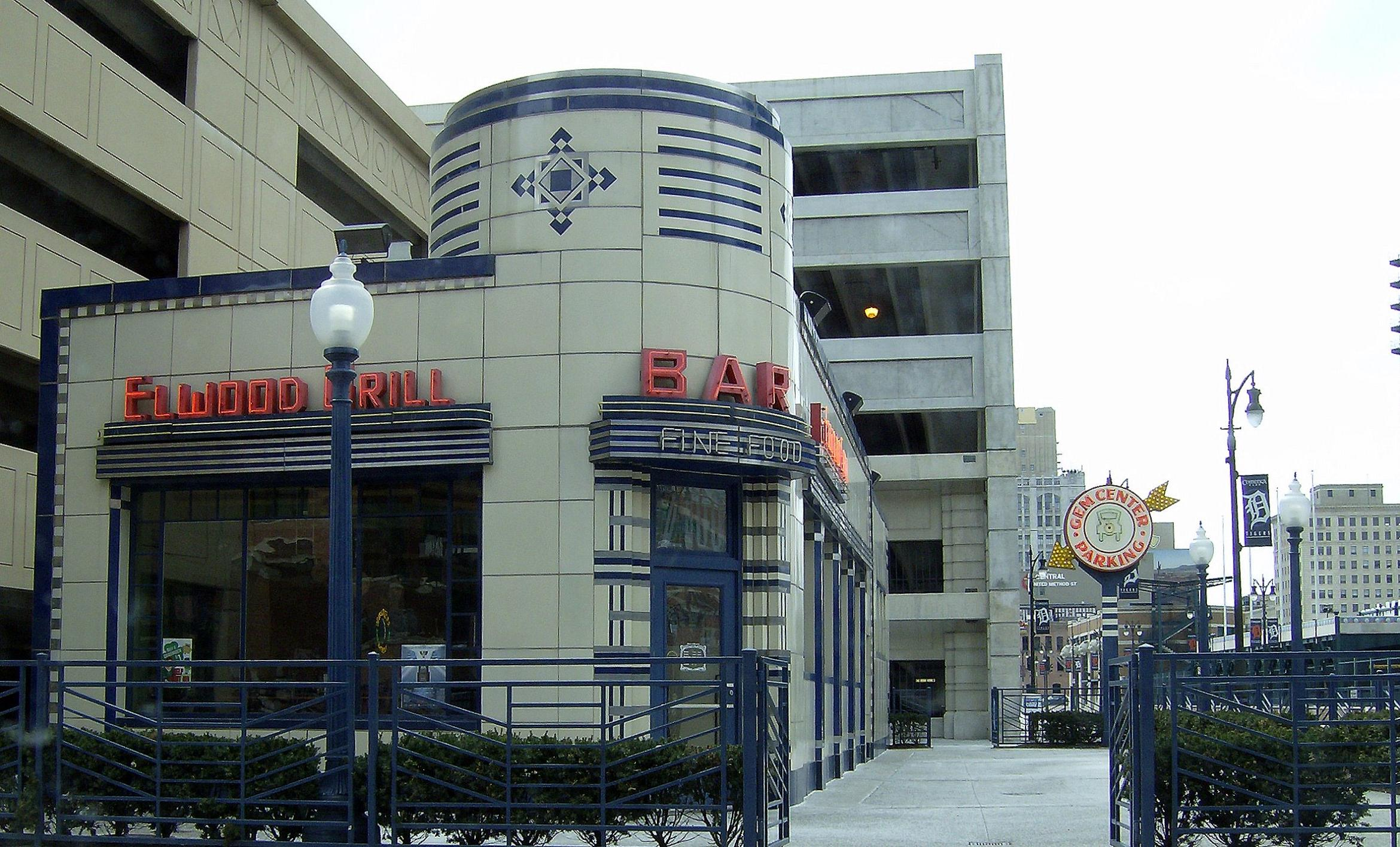 The Elwood Bar in Detroit, Michigan, United States, is listed on the US National Register of Historic Places (NRHP).